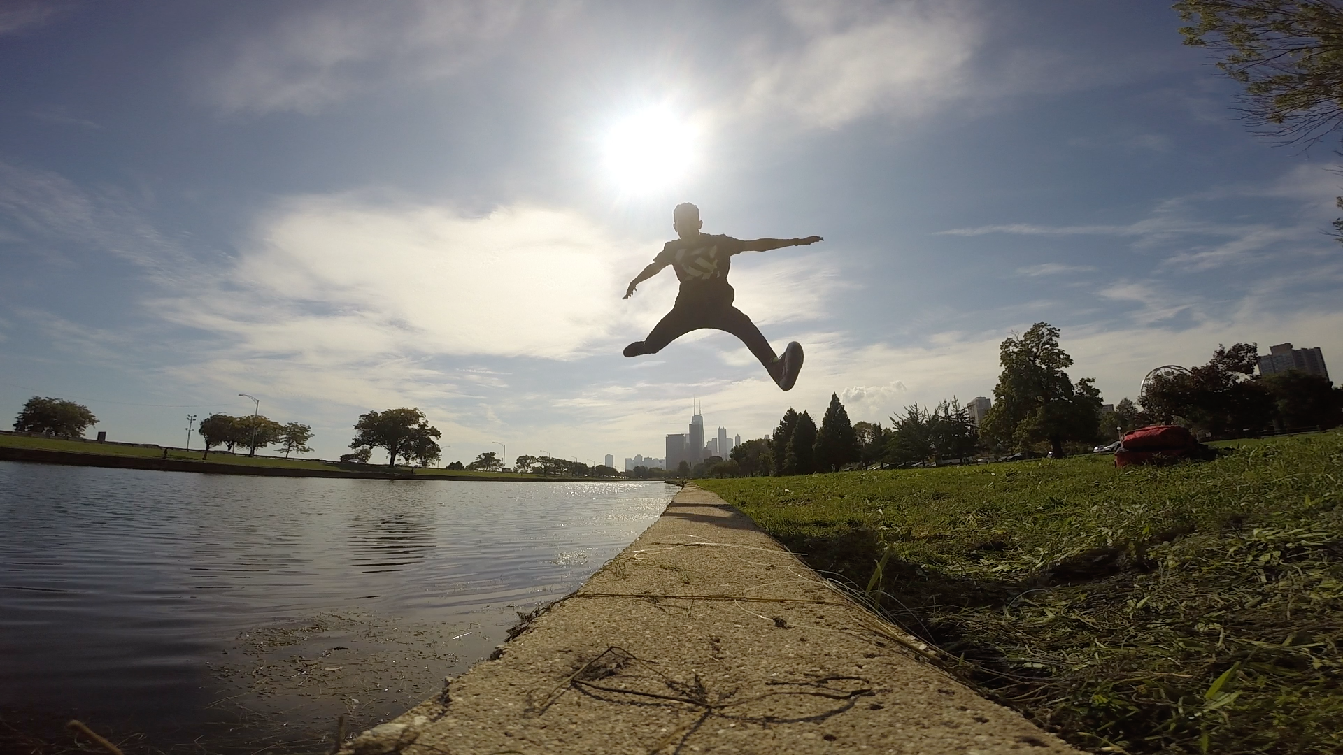 jumping. shoot by gopro hero 3+